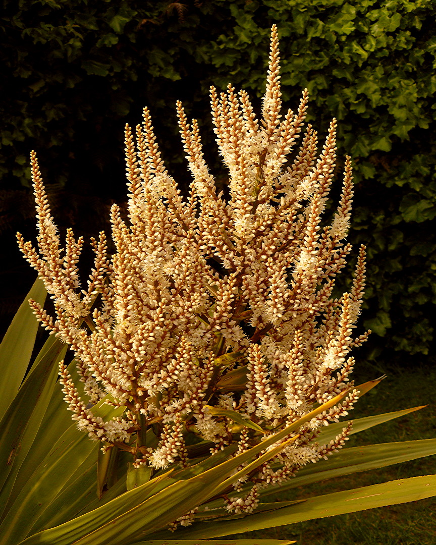 Cordyline australis, Cabbage Tree (Ti Kouka). Inflorescence in the late afternoon sun. The Cabbage Tree grows as high as 20m with trunks up to 2m in diameter. Māori used it as a valuable source of food, medicine and fibre.